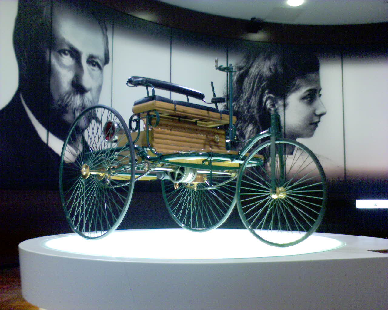 A replica of the Benz Patent Motorwagen that was built in 1885. This replica is located at Mercedes-Benz World at Brooklands